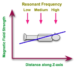 Illustration of the application of a z-gradient for spatial localization in MRI. Generated by Kieran Maher using OmniGraffle. marz 13:36, 9 November 2006 (UTC) en:/Images